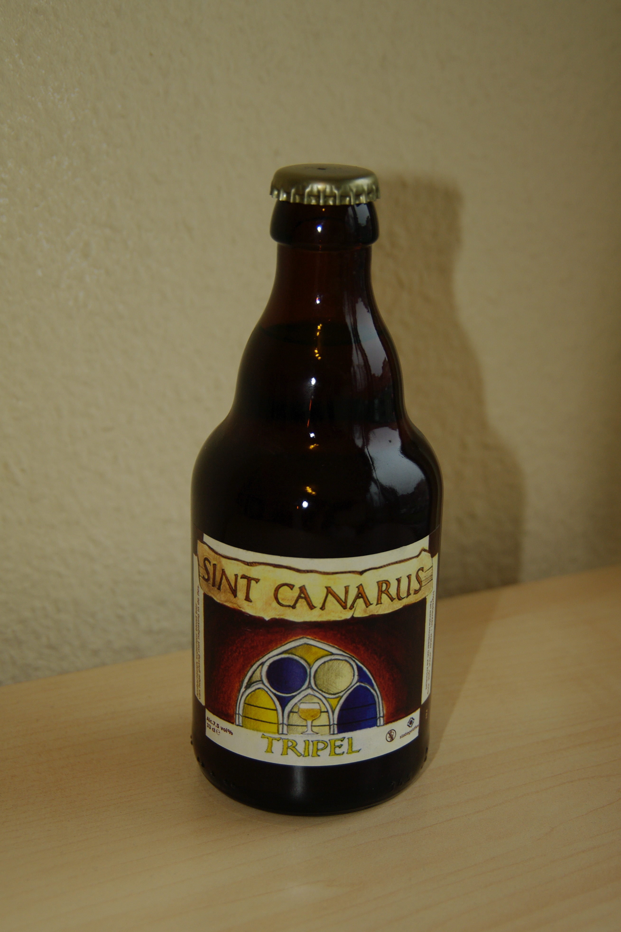 Sint Canarus tripel beer